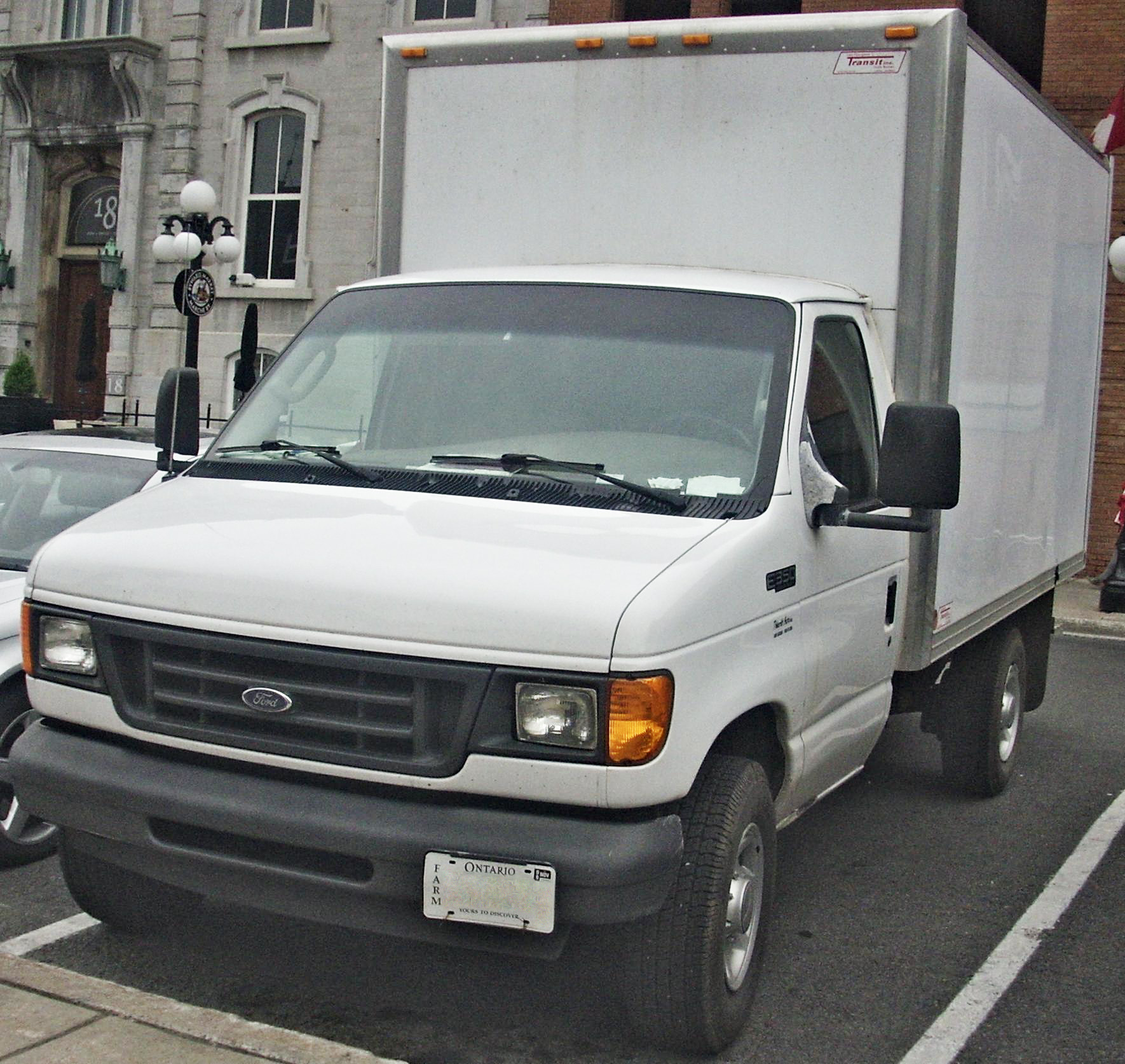 2003-2007 Ford E-350 photographed in Ottawa, Ontario, Canada at the Byward Market Auto Classic 2009.